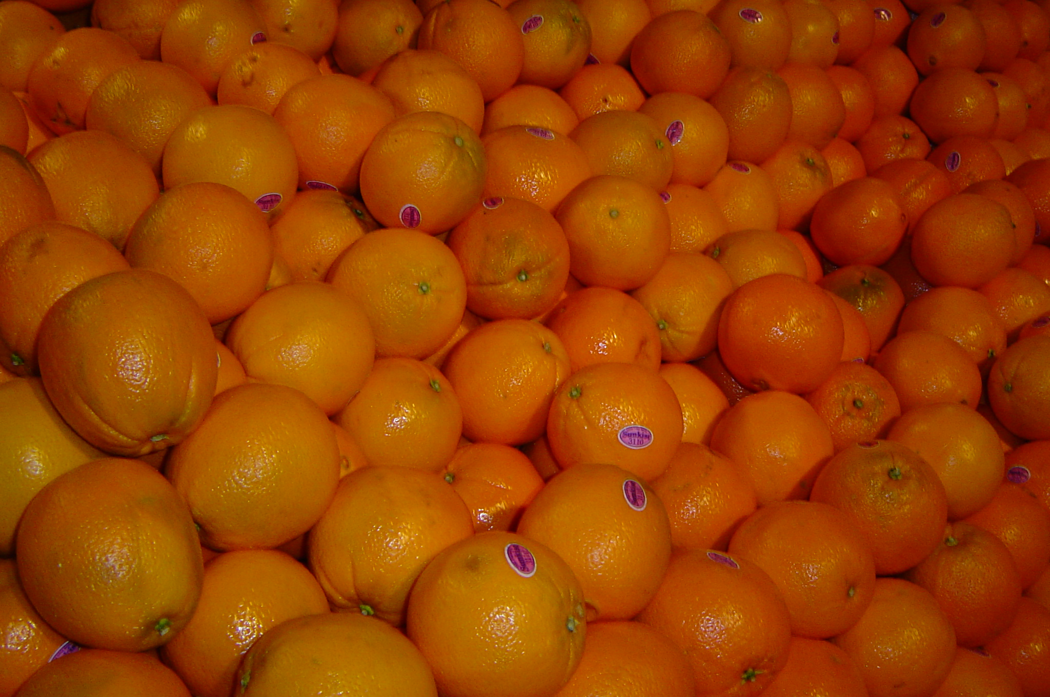 Cara Cara Navel Oranges.